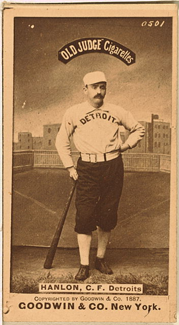 Ned Hanlon baseball card, Goodwin & Company, 1897 From the collection of the Library of Congress and believed to be in the public domain